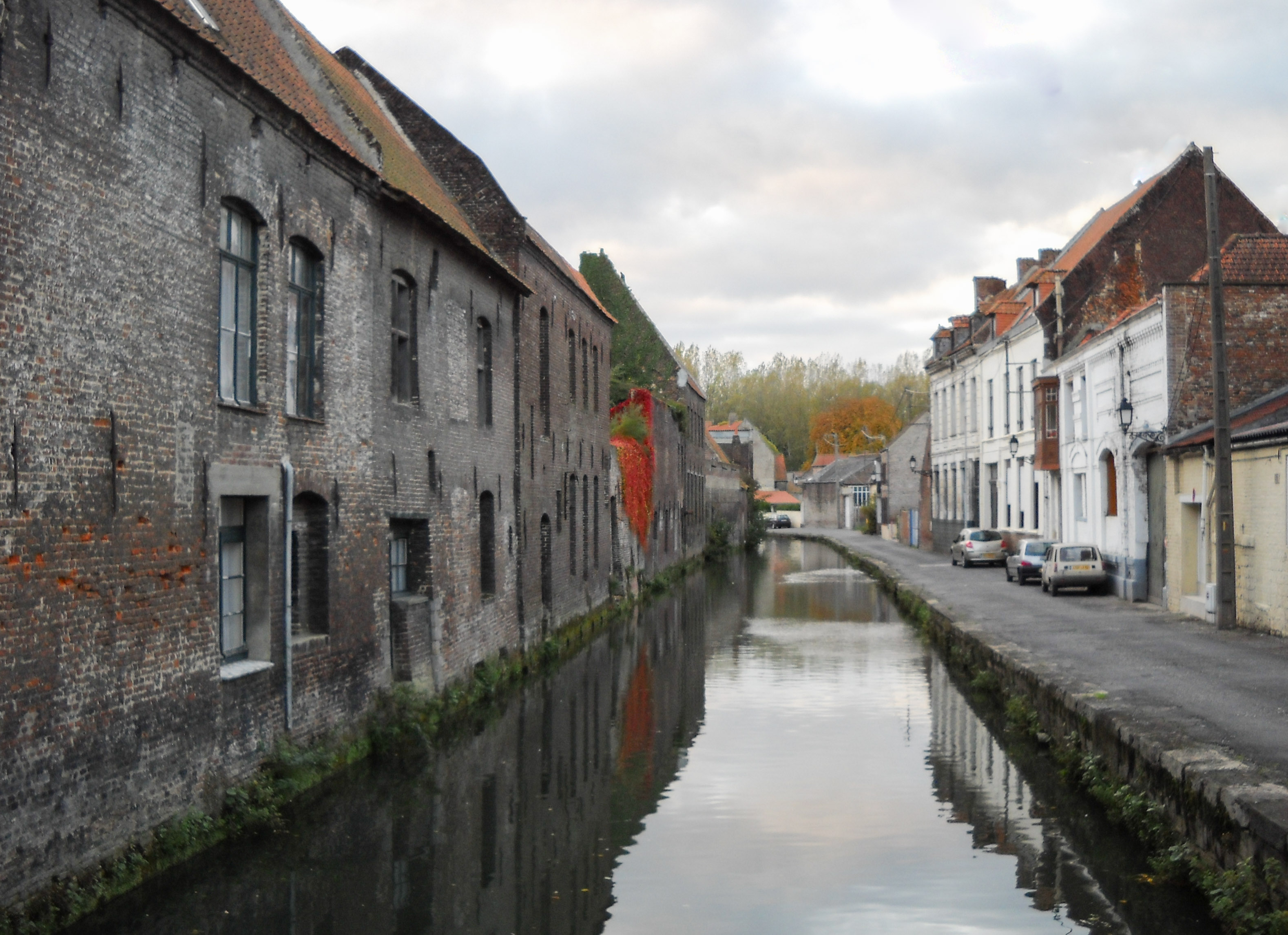 River Lys, in Aire-sur-la-Lys, Pas-de-Calais, France.